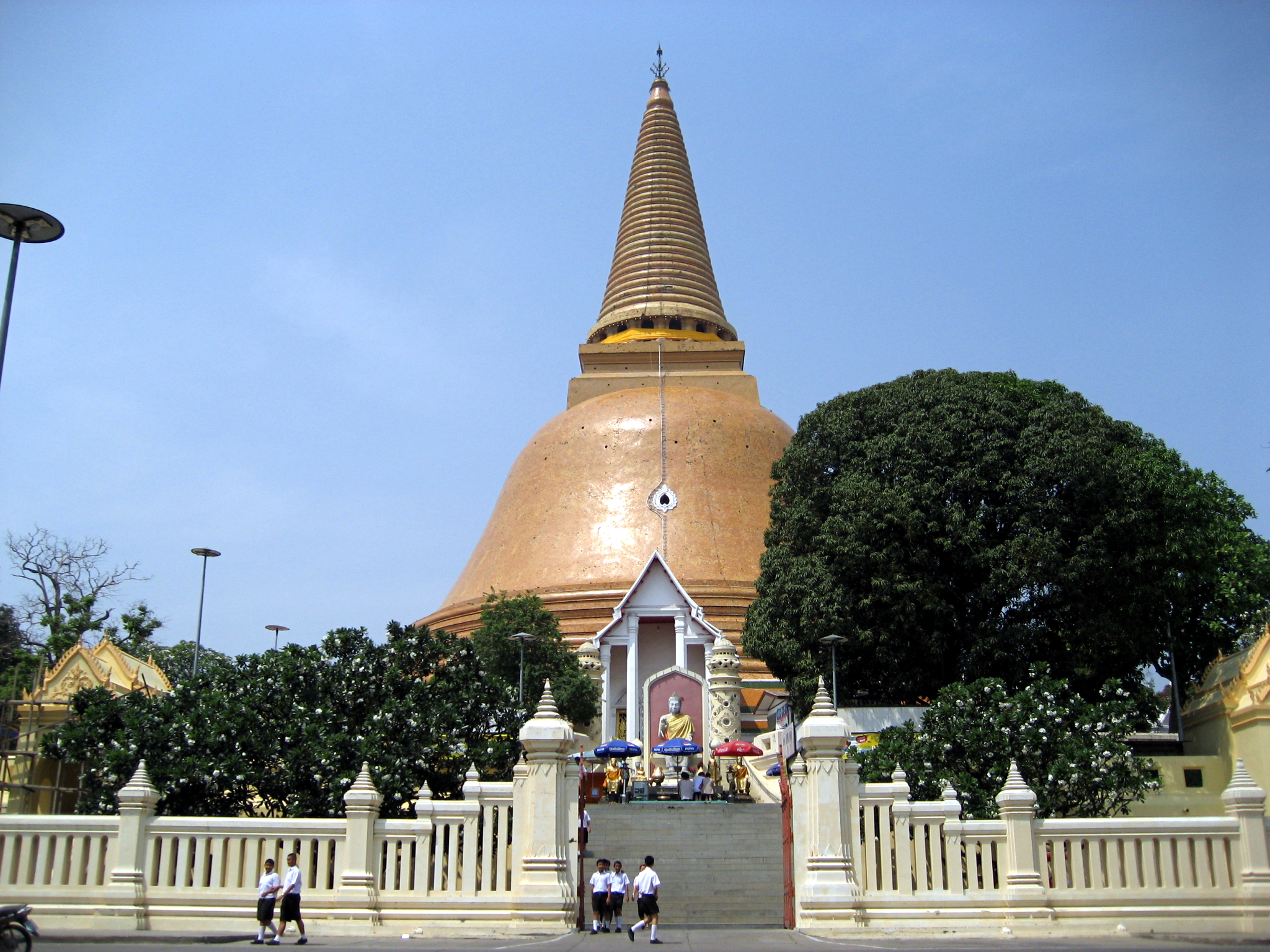 The Great Pagoda in Nakhon Pathom, Thailand, the Phra Pathom Chedi (พระปฐมเจดีย์), is believed to be the tallest Buddhist monument in the world. Its origins date back to ancient times, but the present monument was rebuilt in the 19th century by King Mongkut and finished in 1870.